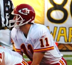 Damon Huard playing against the Pittsburgh Steelers on October, 15,2006. (Cropped)